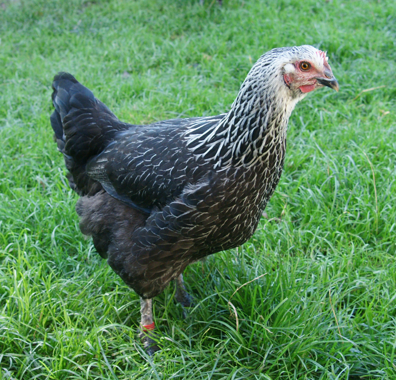 Marans Hen